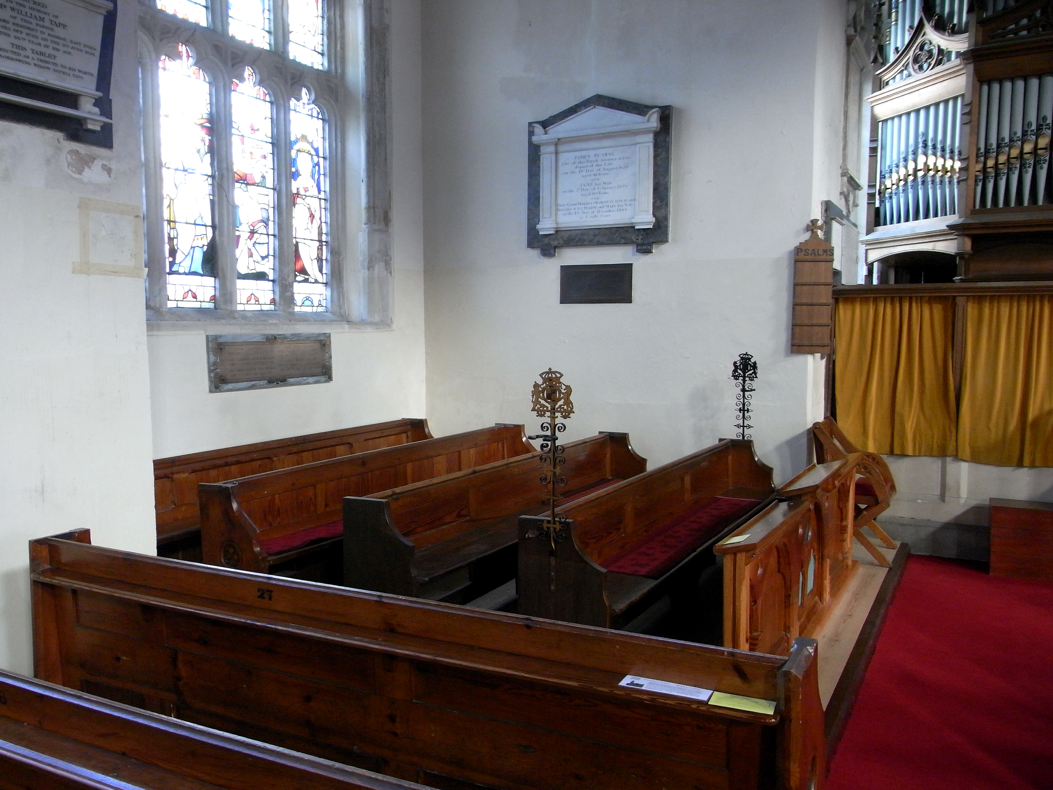 The Mayor's Pew, north transept of St Mary Magdalene Church, South Molton, Devon